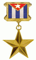 Hero of the Republic of Cuba